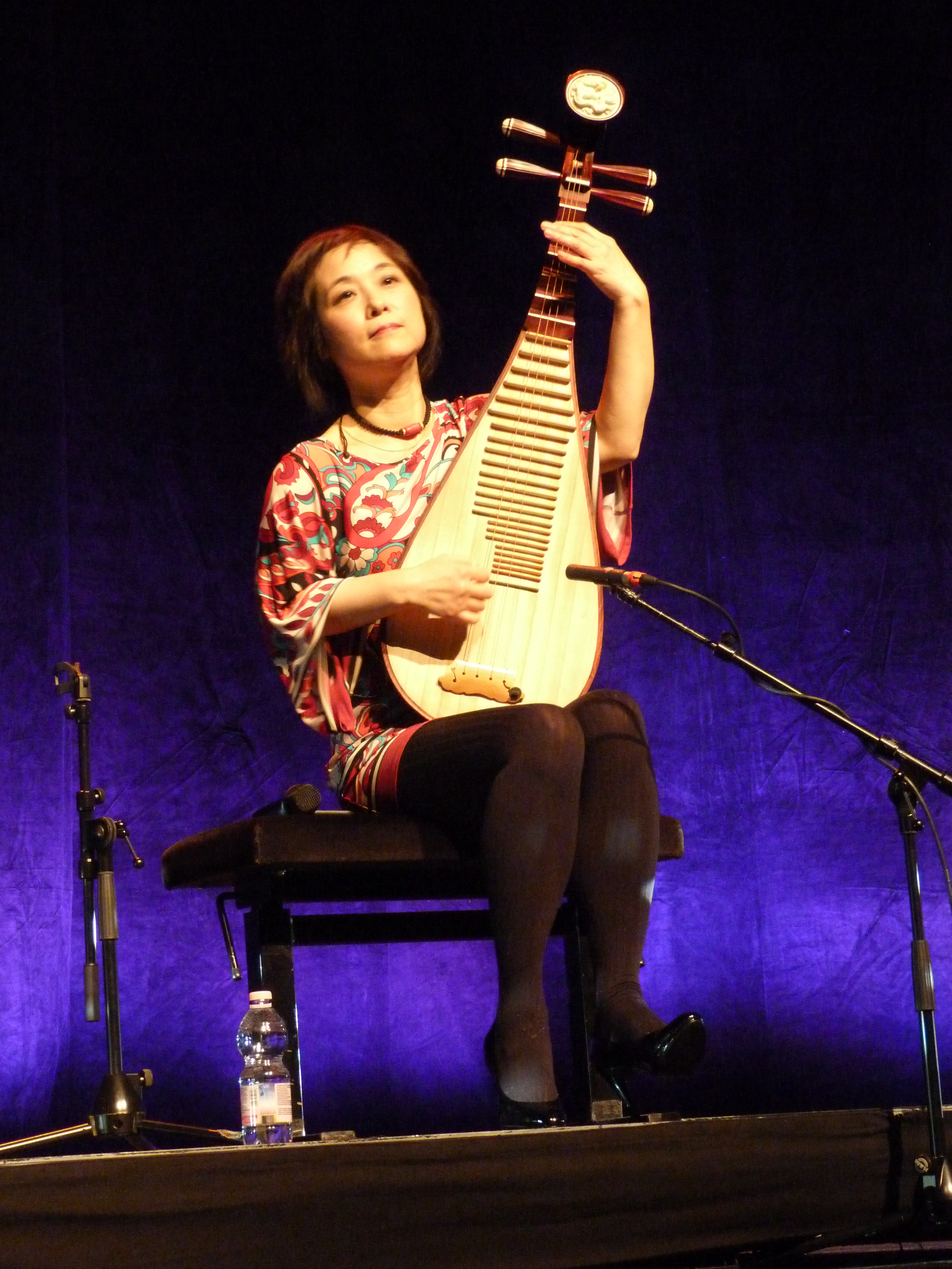 Taken on 24th of October, 2015. WOMEX 15, Budapest, Hungary. Palace of Arts. Wu Man (China). Wu Man playing traditional pipa.